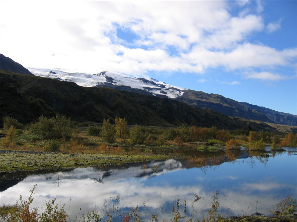 Þórsmörk in the fall of 2005